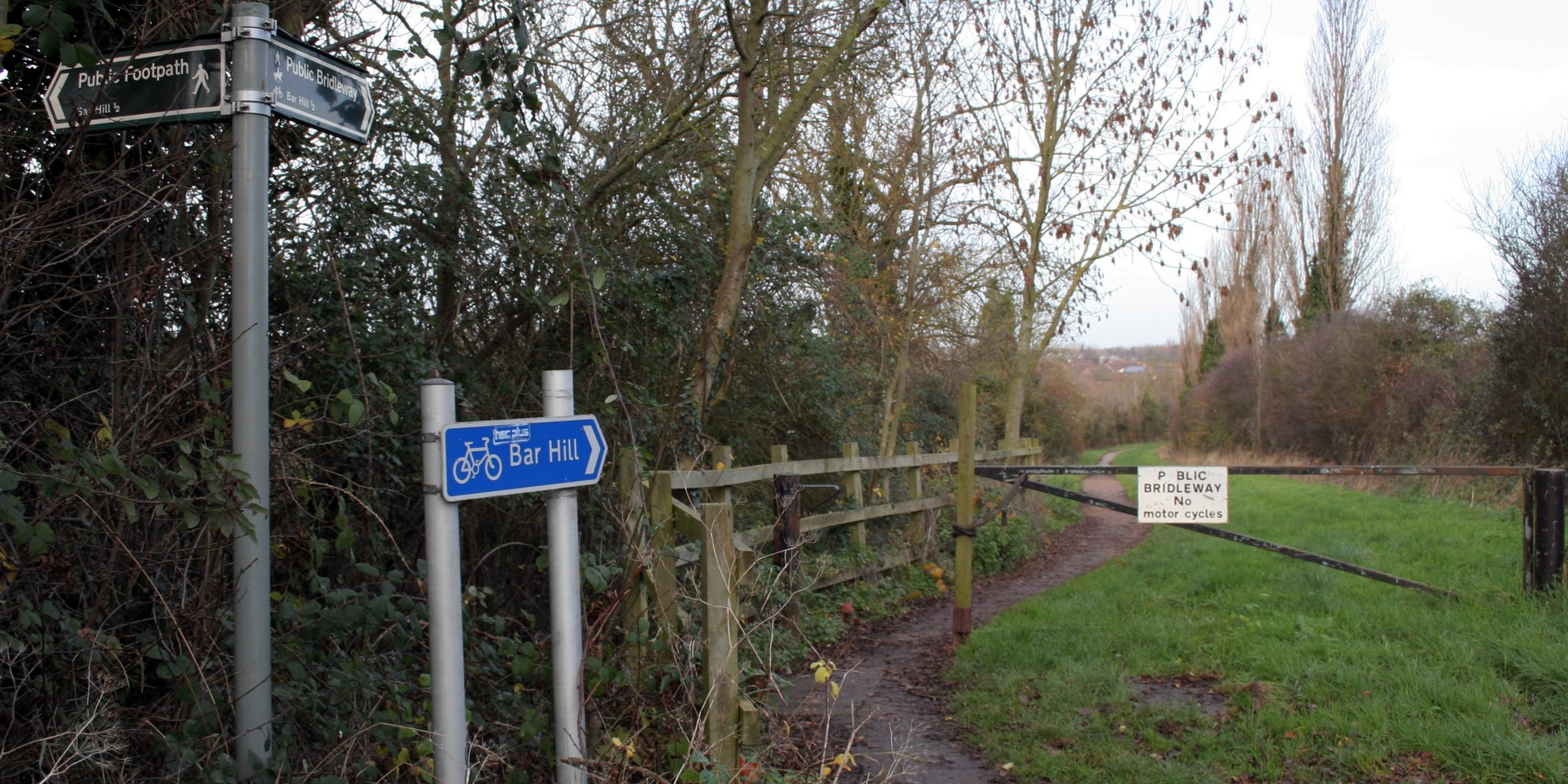 Dry Drayton entrance to The Drift in December 2013.